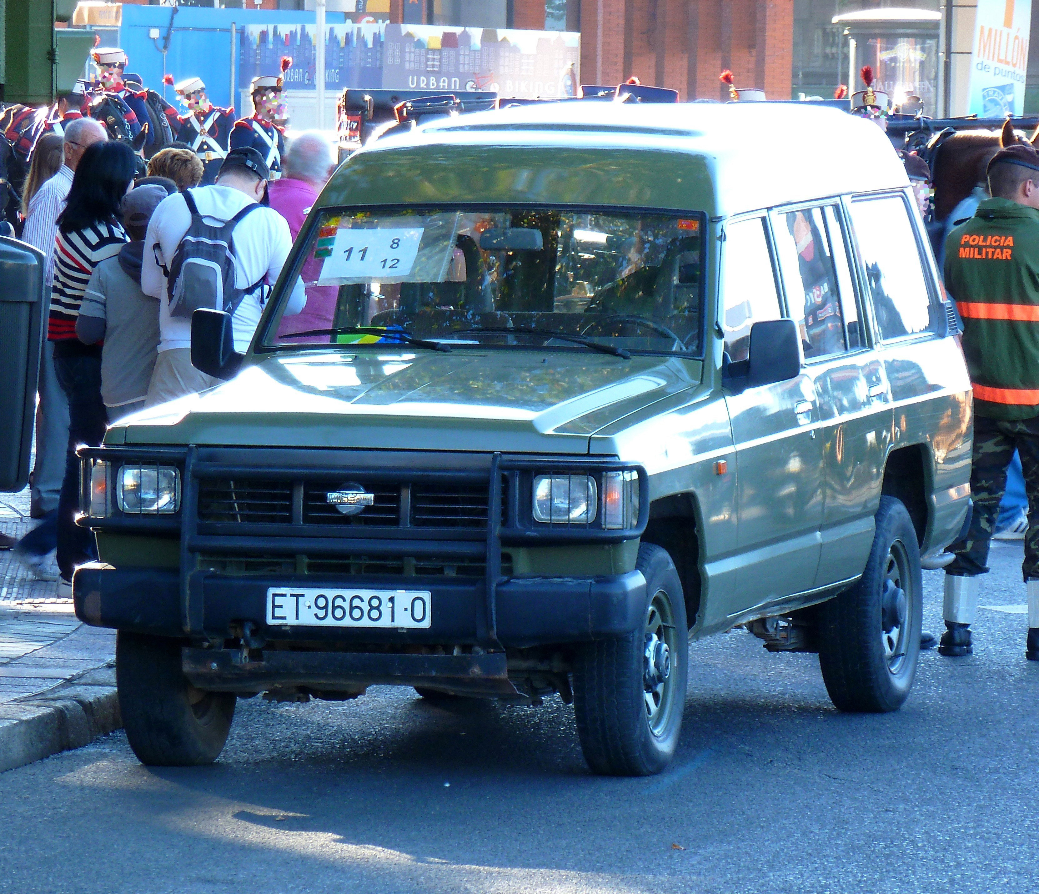 Nissan Patrol of the Spanish Army.